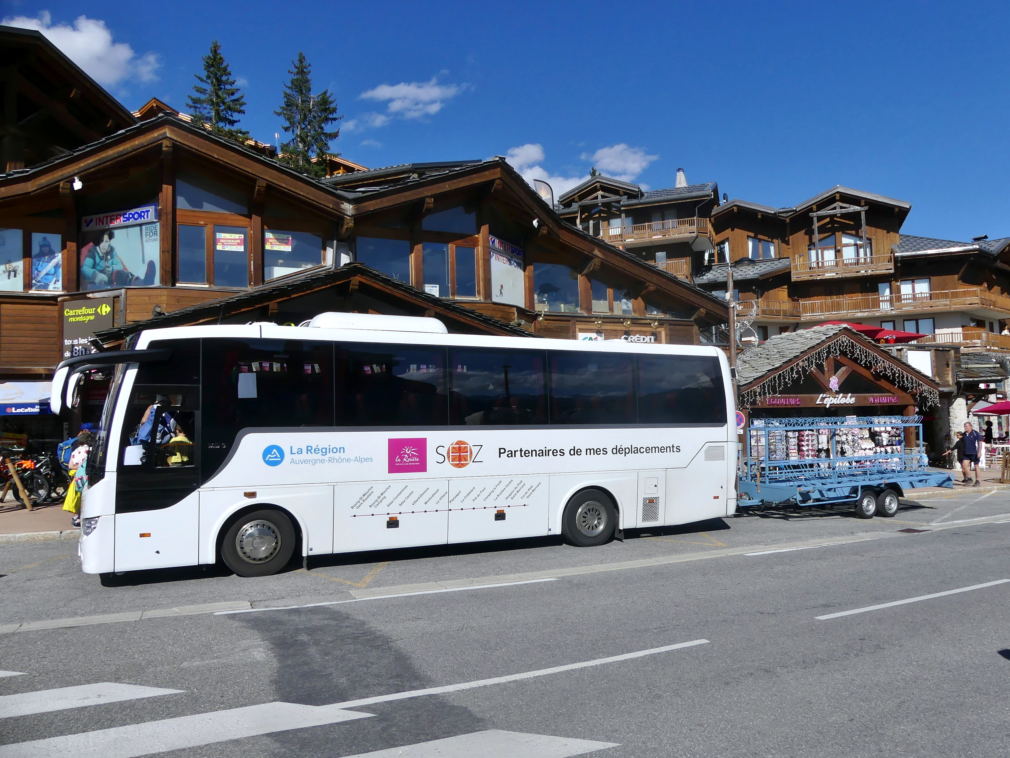 Sight of the summer shuttle bus to the Petit-Saint-Bernard pass, arrived at La Rosière resort bus stop, in Savoie, France.